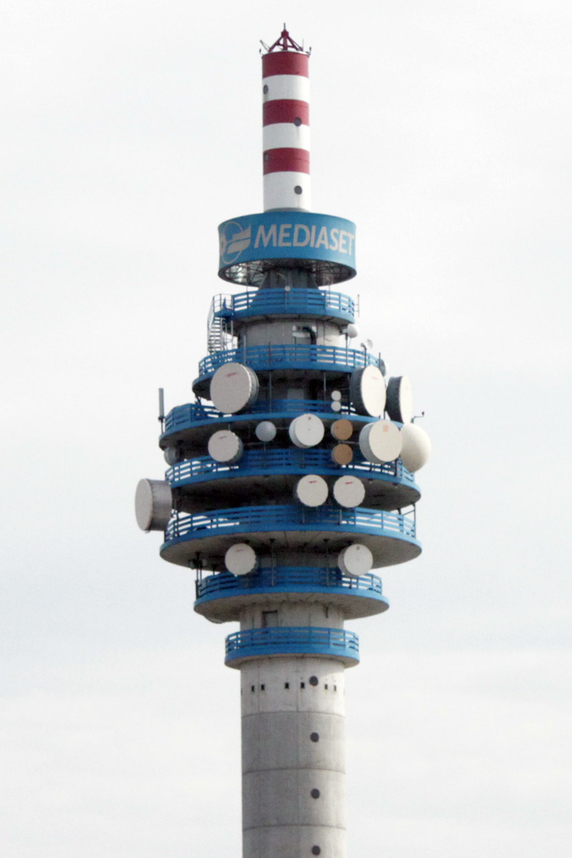 Mediaset tower from highway A51